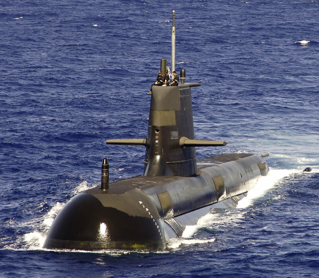 Australian submarine HMAS Rankin (Hull 6) and U.S. Navy attack submarine USS Key West (SSN 722) prepare to join a multinational formation with other ships July 25, 2006, to commemorate the last day of exercise Rim of the Pacific 2006. Conducted in the waters off Hawaii, RIMPAC brings together military forces from Australia, Canada, Chile, Peru, Japan, the Republic of Korea, the United Kingdom and the United States.